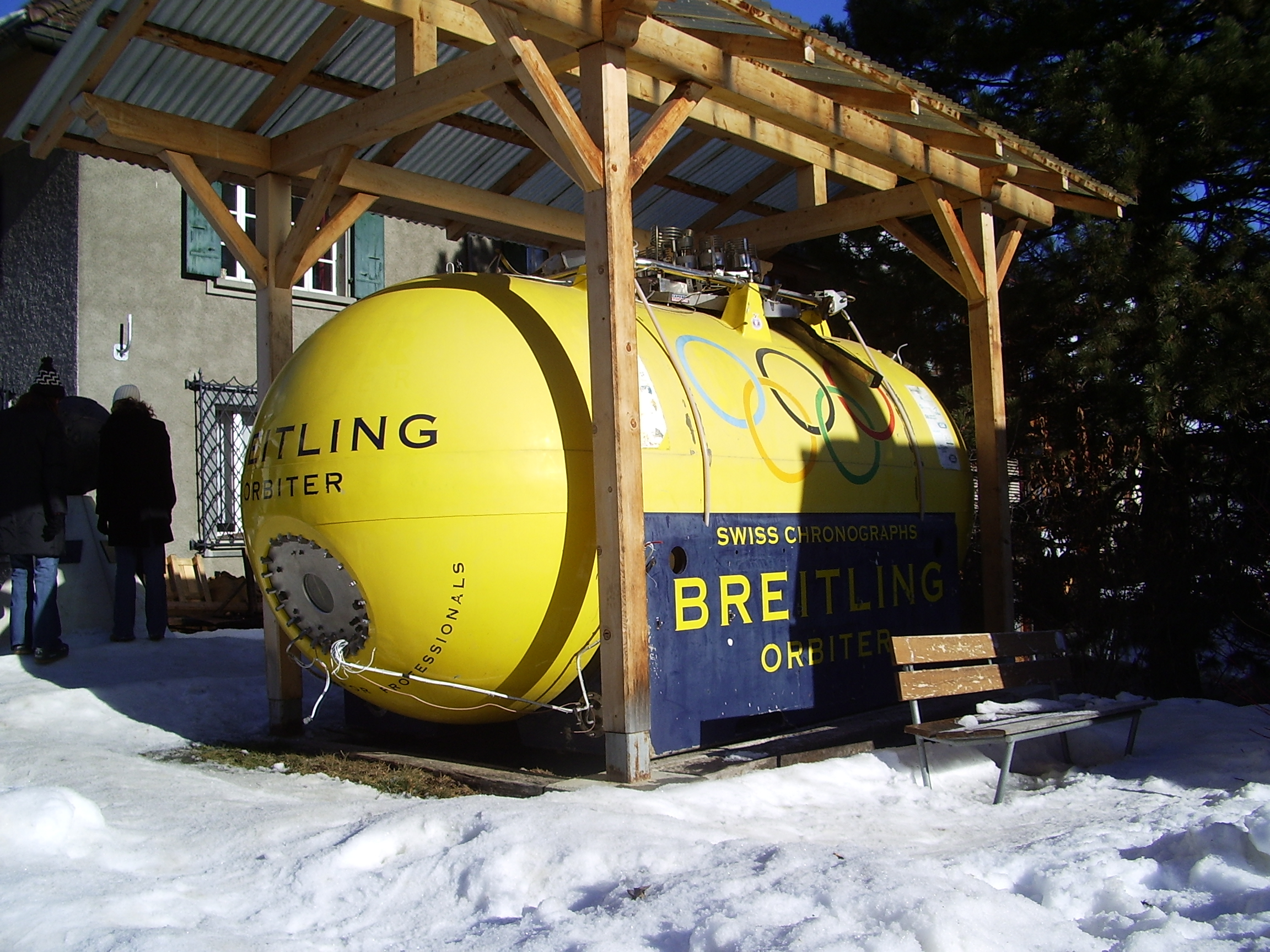 Basket of Breitling Orbiter in Chateaux d'Oex, first balloon to circumnavigate the globe without layovers (See Bertrand Piccard)